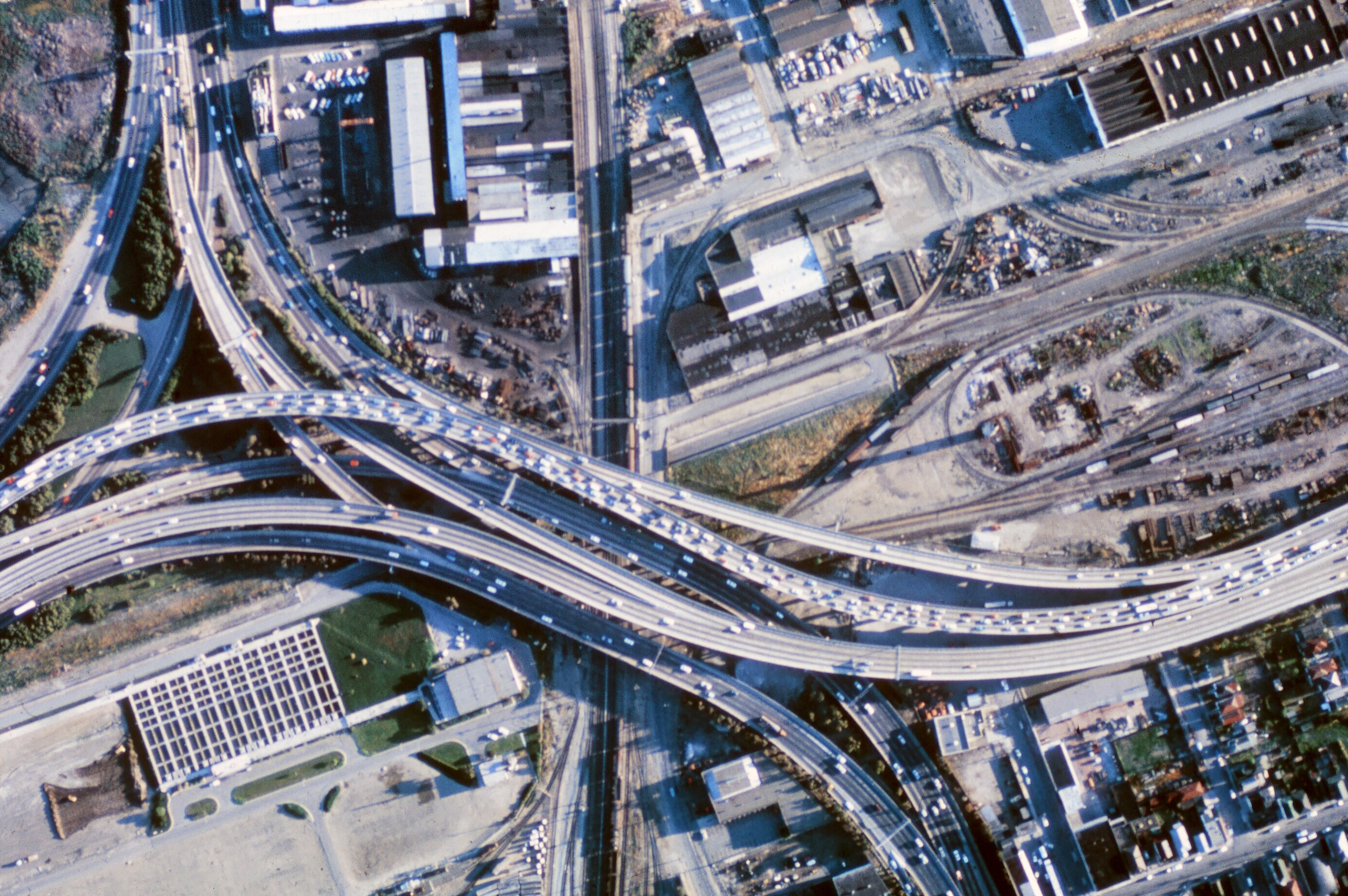 Photograph taken from a series posted by AC Transit showing aerial photography of West Oakland, the Bay Bridge, and GM New Look buses. This photograph shows the Macarthur Maze (I-80/I-580 spaghetti interchange).